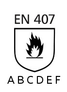 Sign of European Norm EN 407